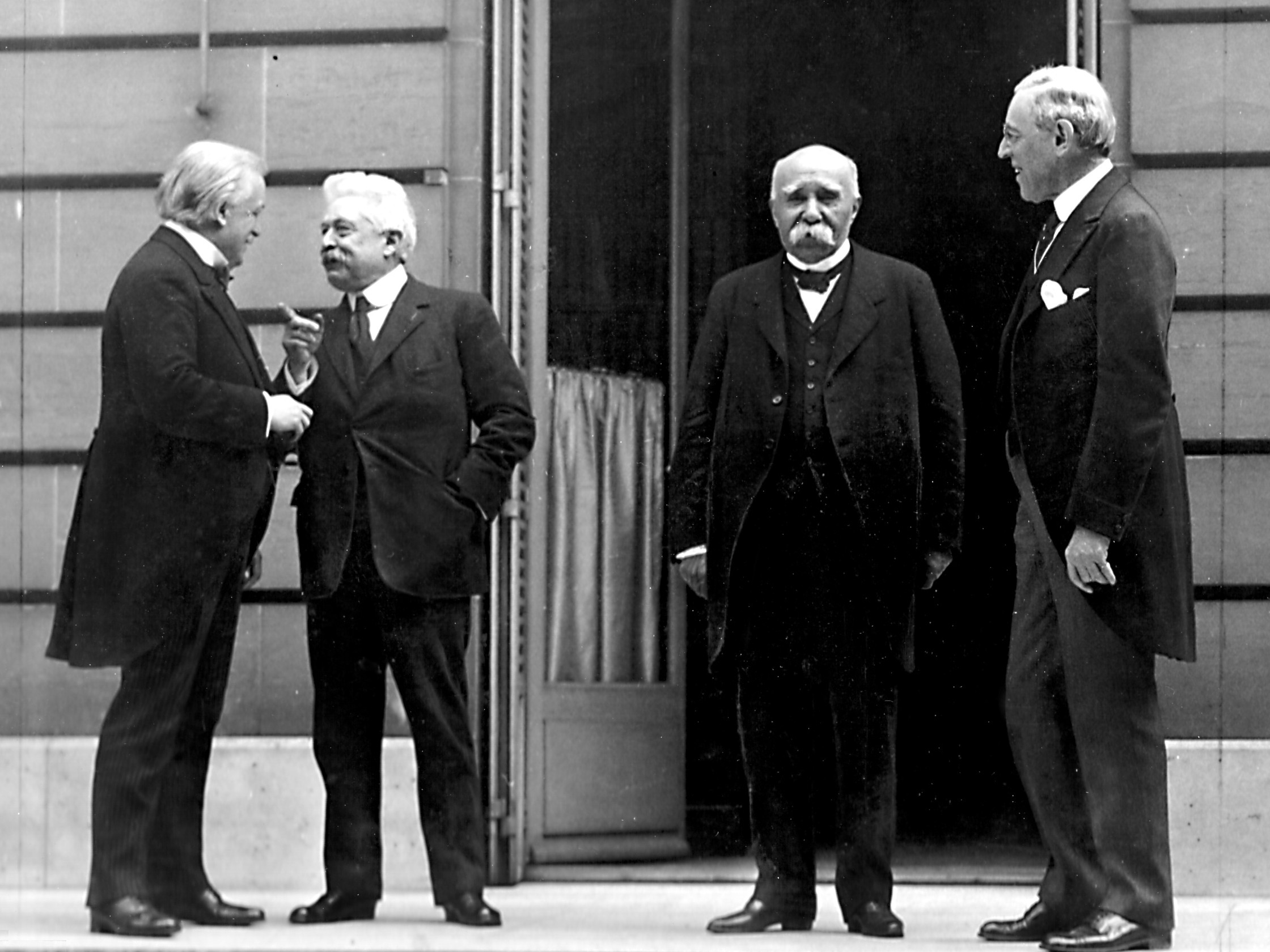 Council of Four at the WWI Paris peace conference, May 27, 1919 (candid photo) (L - R) Prime Minister David Lloyd George (Great Britian) Premier Vittorio Orlando, Italy, French Premier Georges Clemenceau, President Woodrow Wilson